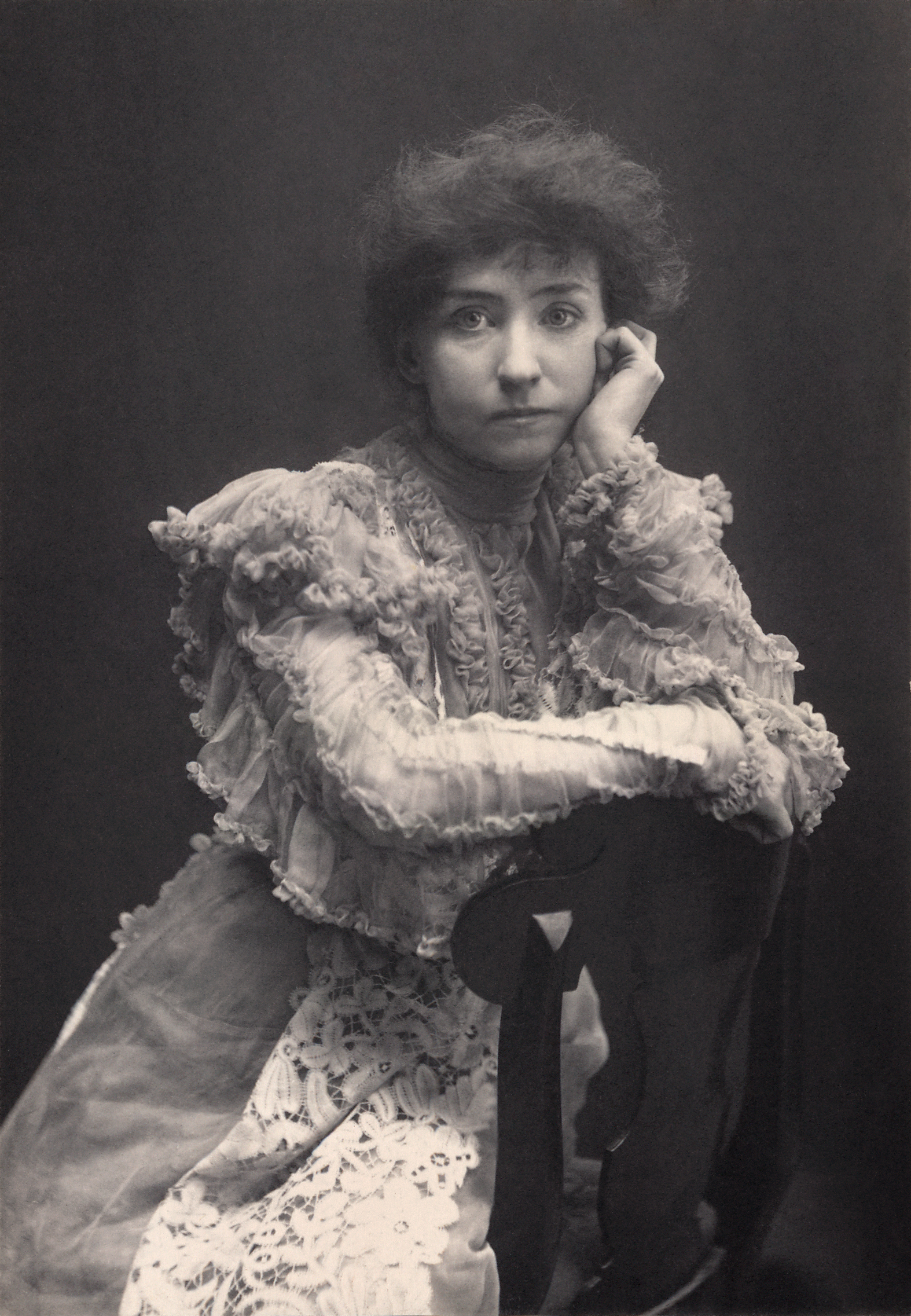 Title: Mrs. Fiske, "Love finds the way" / Zaida Ben Yusuf. Abstract/medium: 1 photographic print.